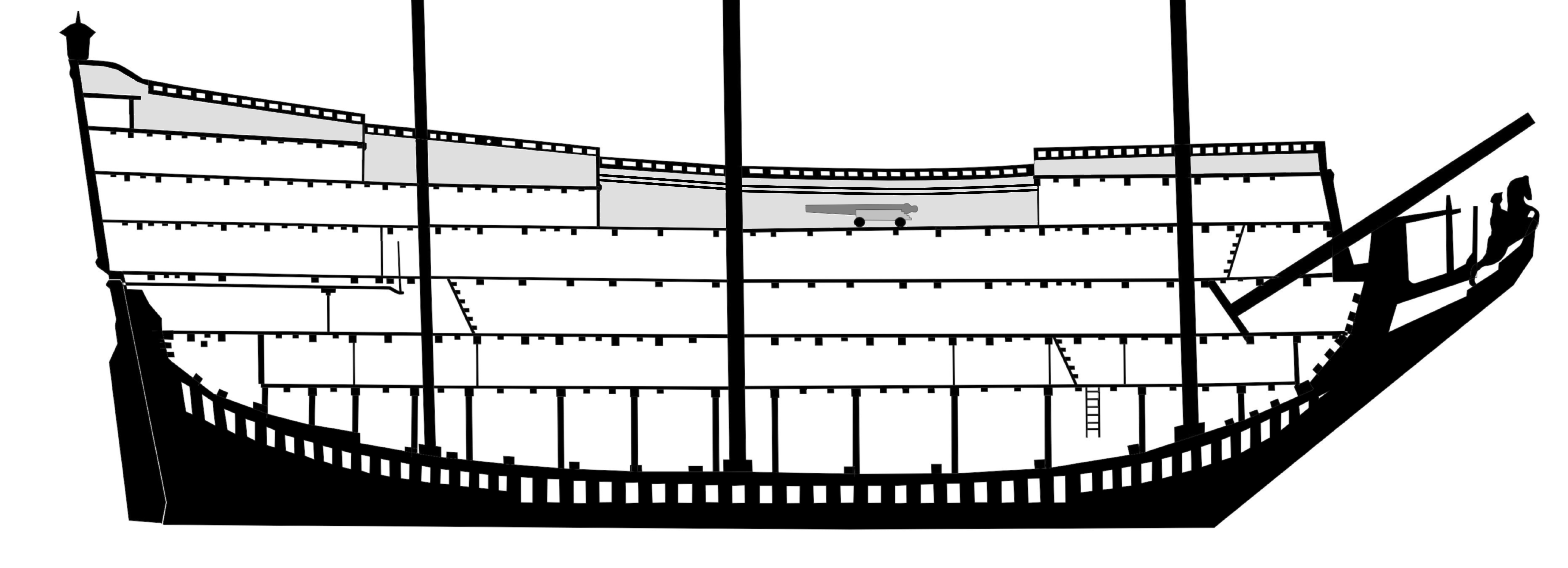 Structural diagram of Kronan ship, after reconstruction in Kalmar läns Museum, Sweden